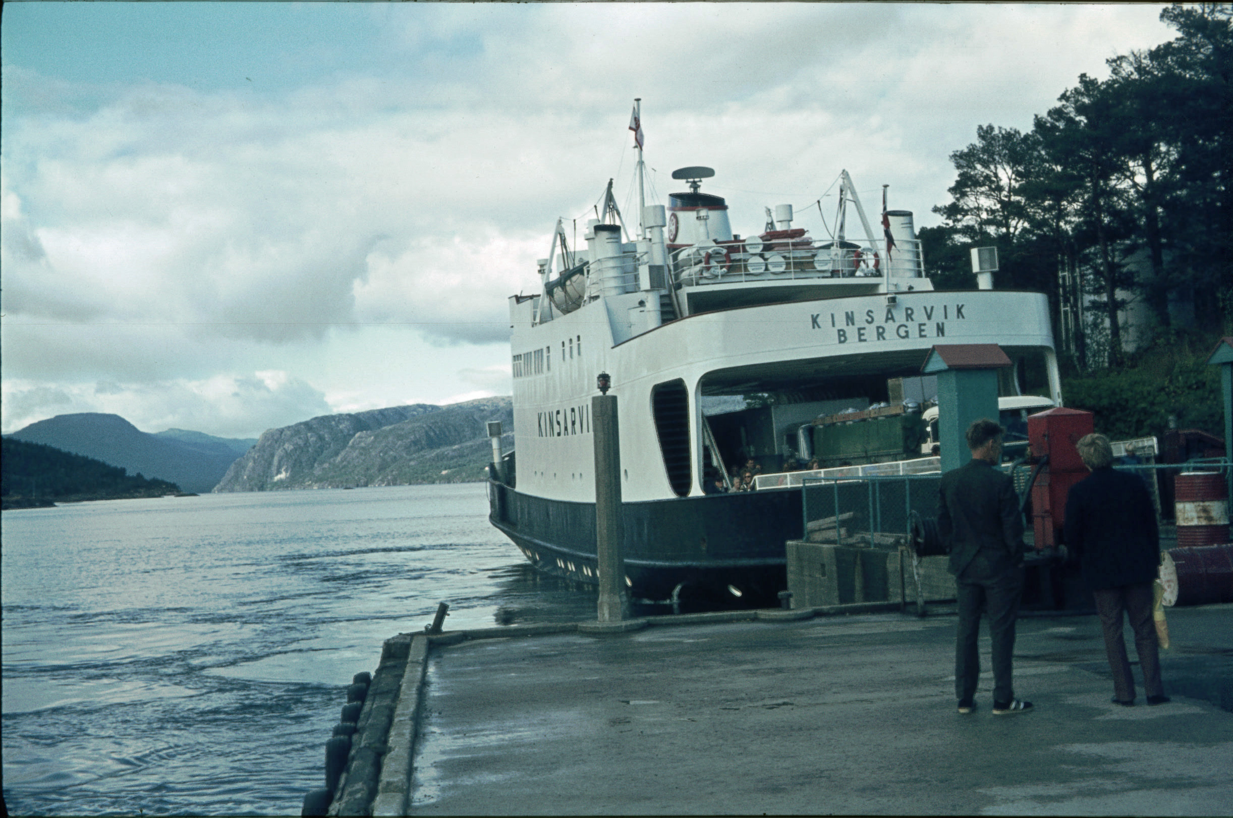 The ferry named "Kinsarvik" docked at Gjermundshavn ferry terminal in Kvinnherad in August 1973.